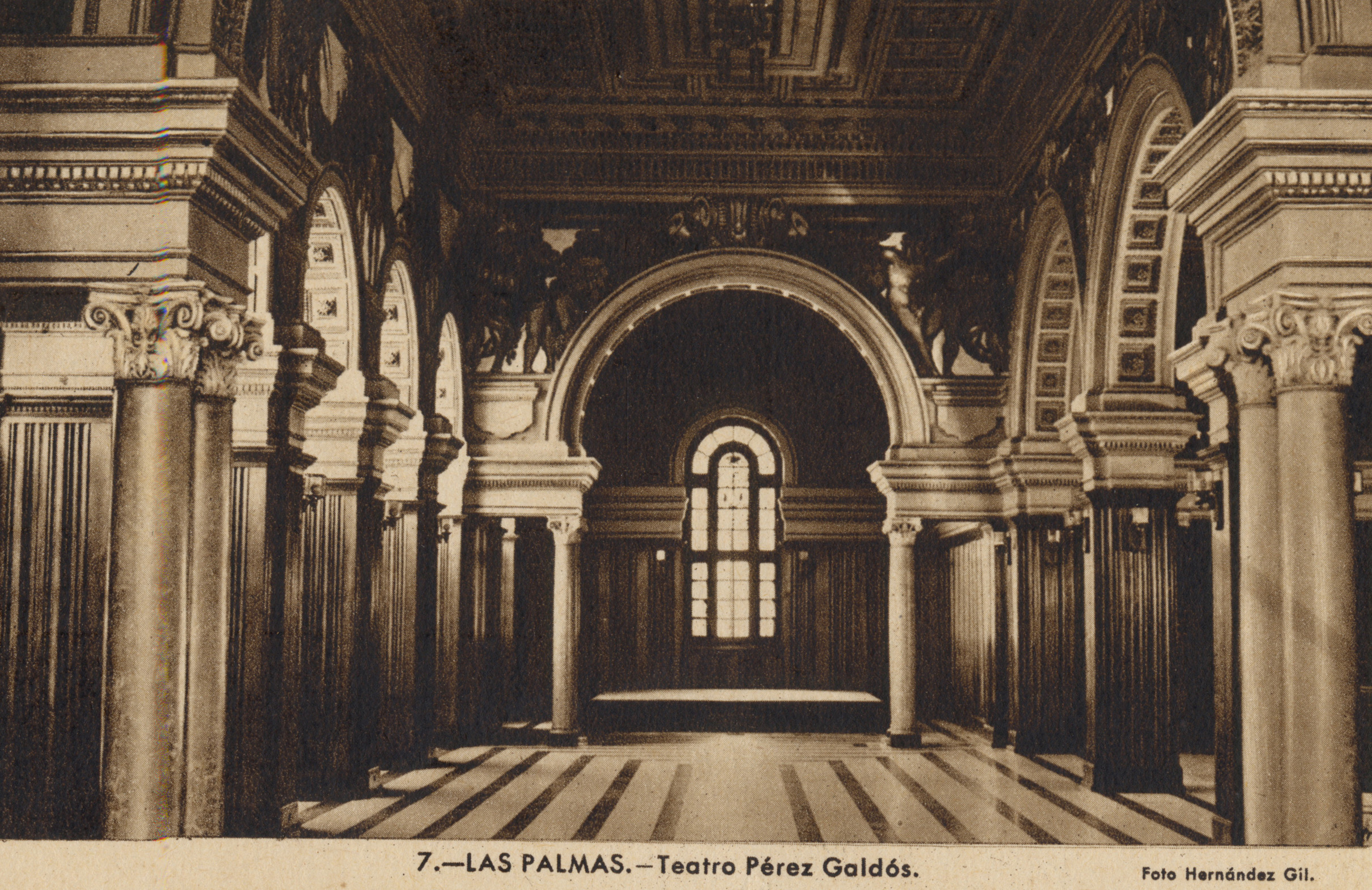 Pérez Galdós Theater, Saint Saëns hall. Las Palmas de Gran Canaria (Gran Canaria). Canary Islands, Spain.